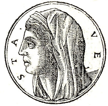 Vesta was the virgin goddess of the hearth, home, and family in Roman mythology.